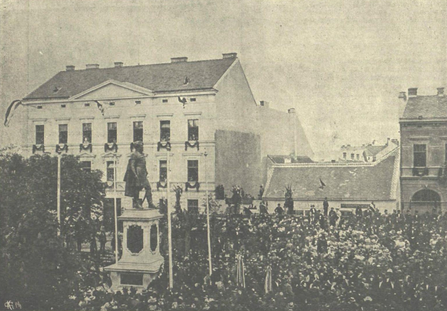 István Széchenyi's statue in Soporon